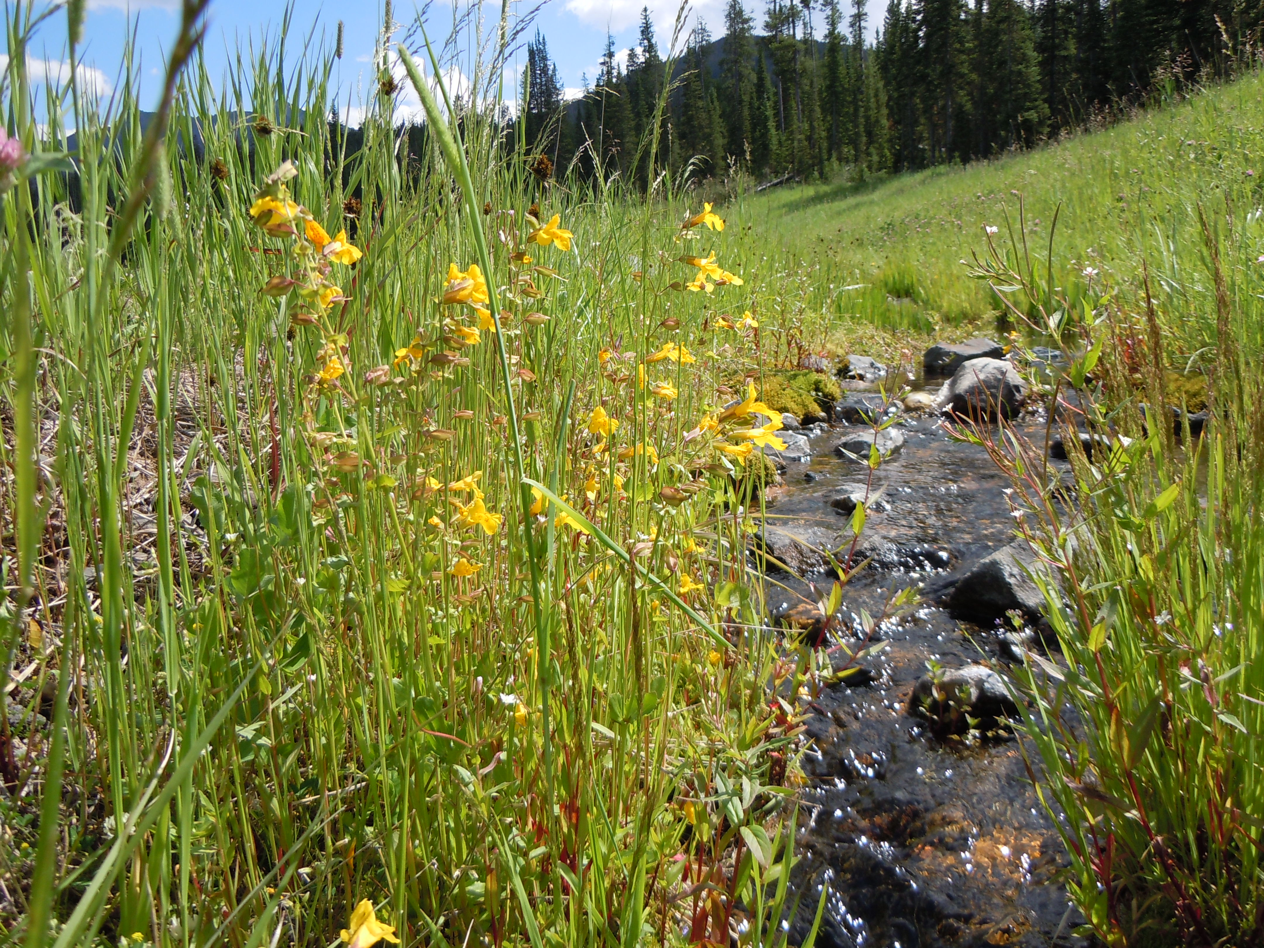 A common inhabitat of mountain brooks.